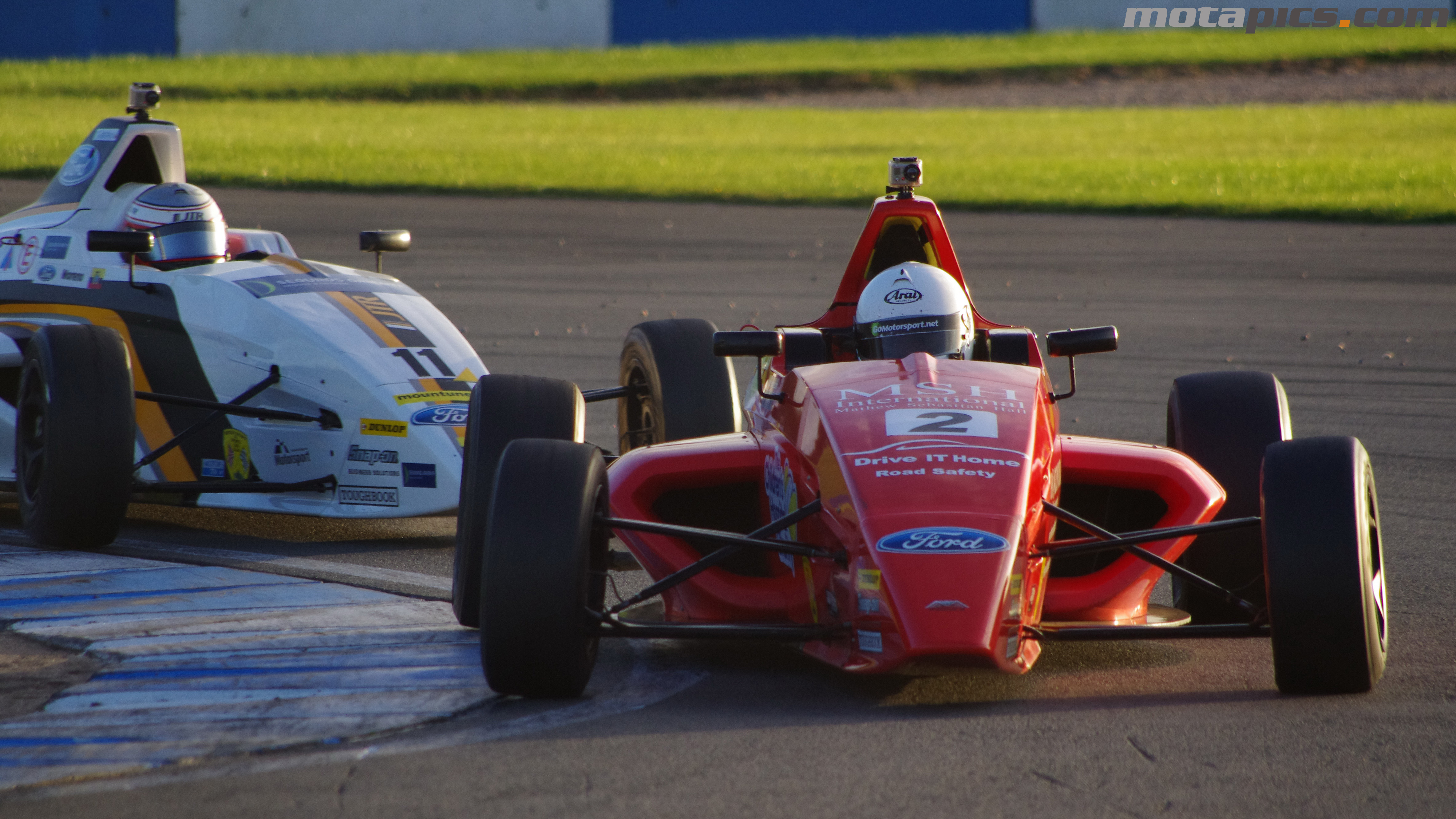 Donington Park, final round 2012 championship, September 2012